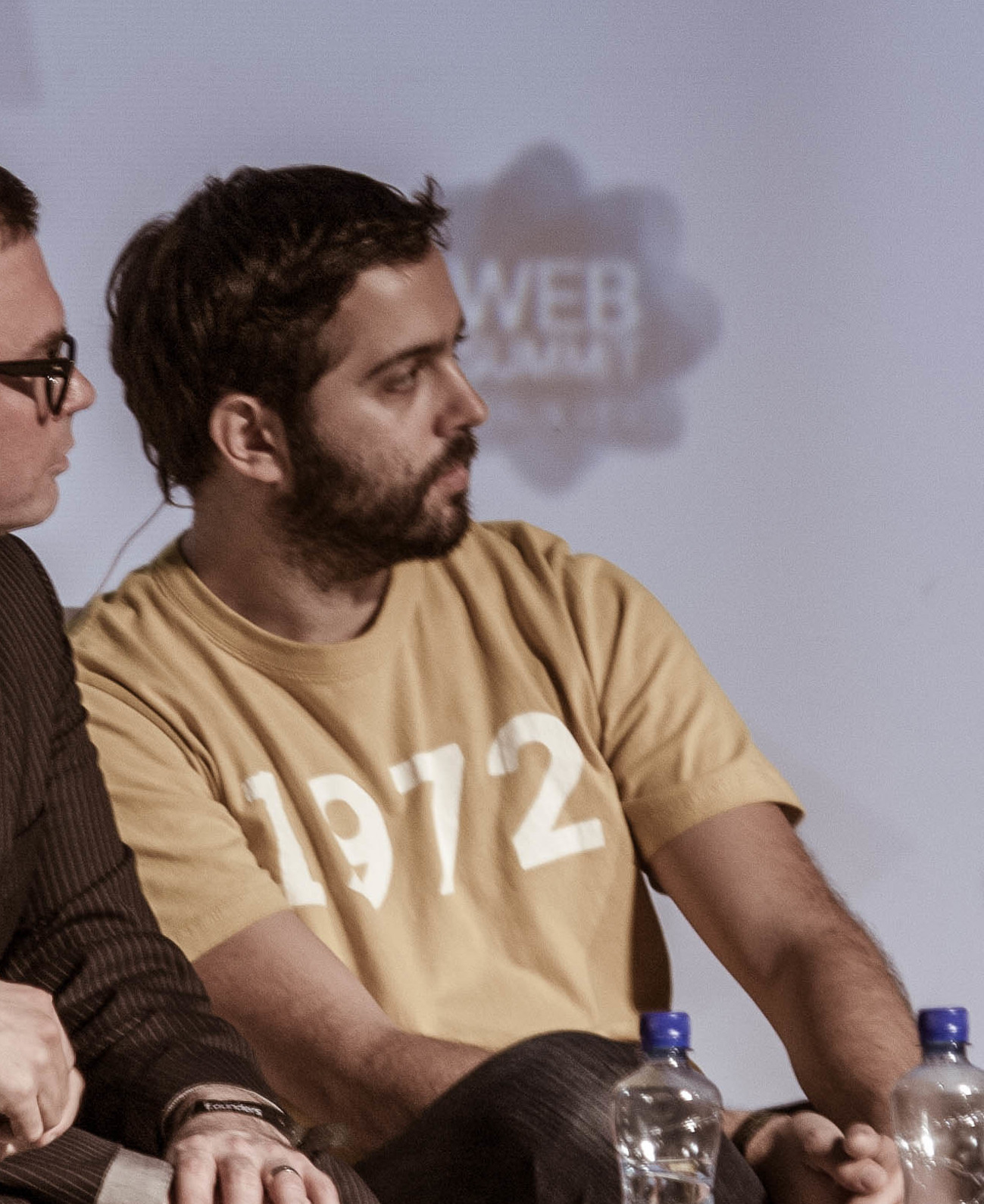 Matt Cowan Meets Chris Morton, Diego Berdakin, Shauna Mei, Carl Fritjofsson And Olivia Gossett: Dublin 2012 Web Summit